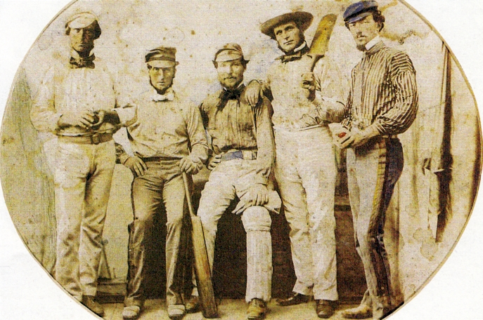 Members of the 1859 Victorian cricket team, left to right: Gideon Elliott, Barton Grindrod, George Marshall, Jerry Bryant and Tom Wills.